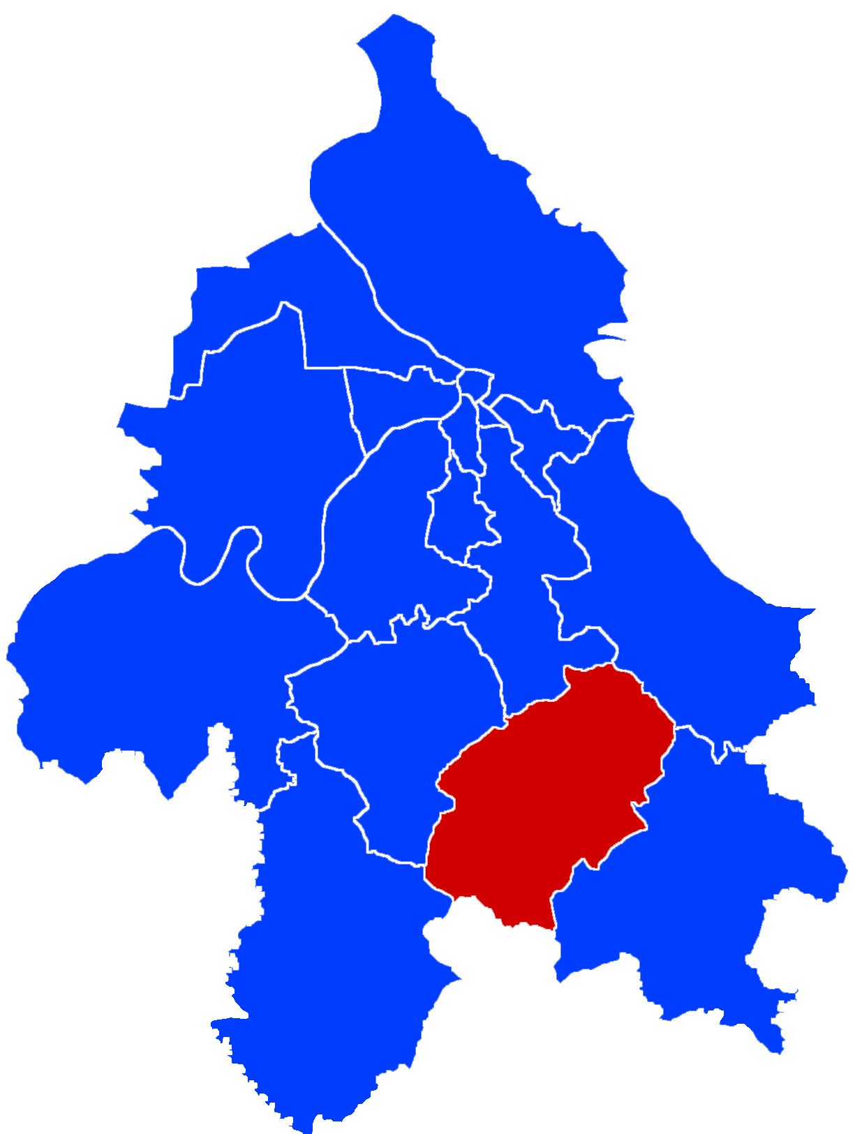 The graphical representation of the municipality of Sopot within the city of Belgrade